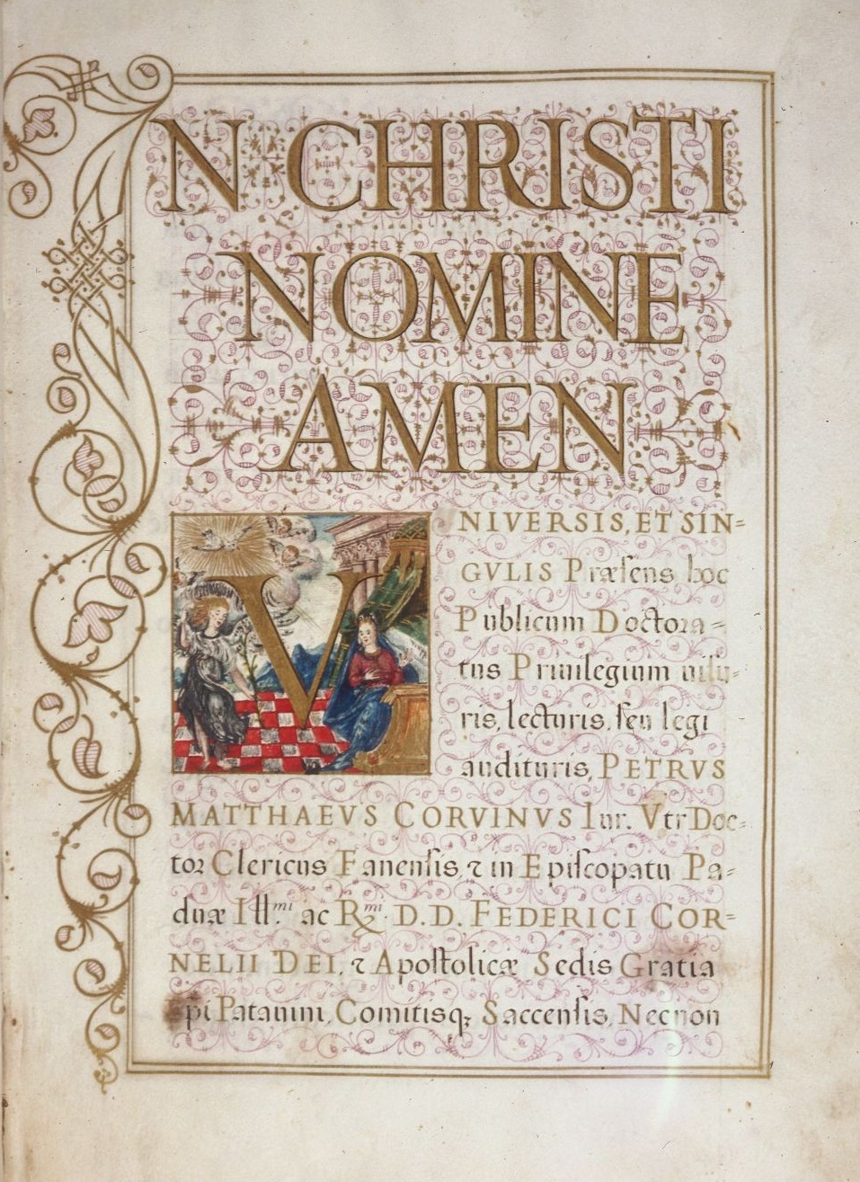 Doctoral diploma given to Count Girolamo Martinengo of Brescia, 10 August 1582. MS Typ 480, Houghton Library, Harvard University